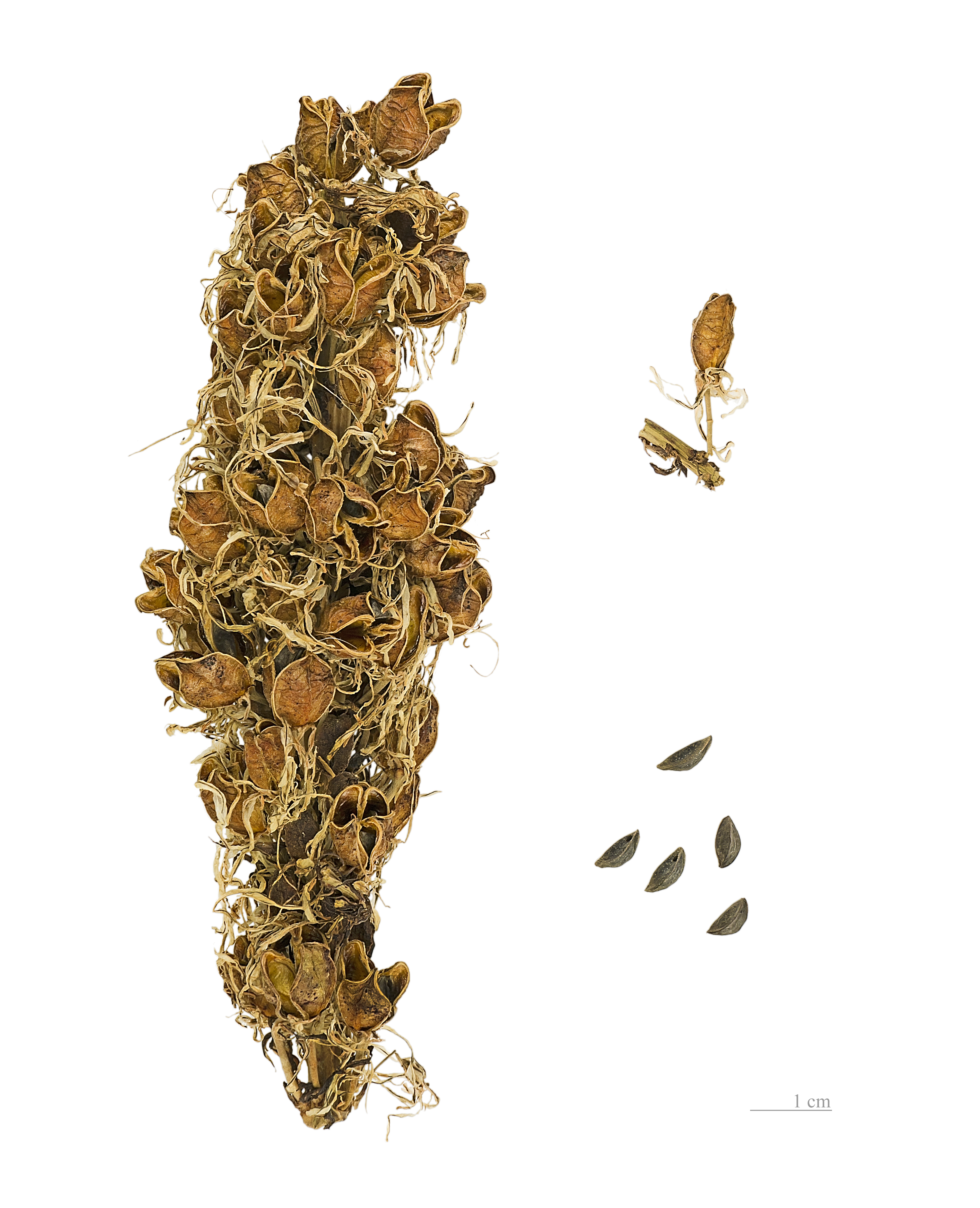 White asphodel, Capsules and seeds